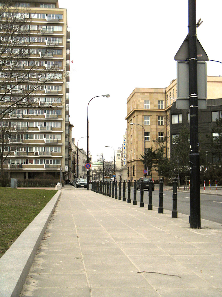 Wiejska Street in Warsaw, Poland